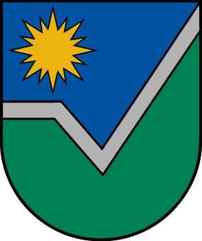 Coat of arms of Vaiņode municipality Unknown vaiņodes novada ģerbonis